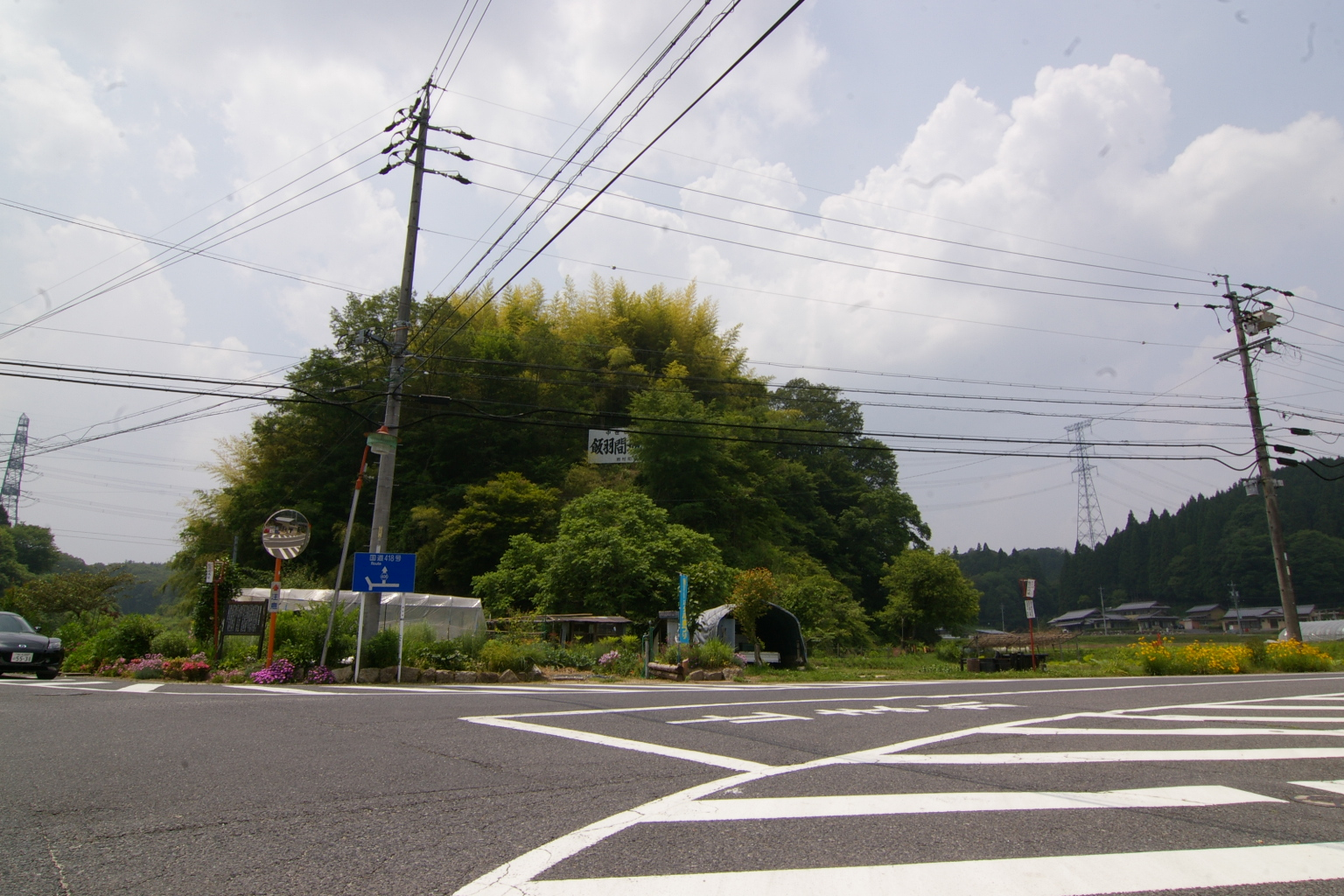 The fort of Iibama. Ena, Gifu, Japan.